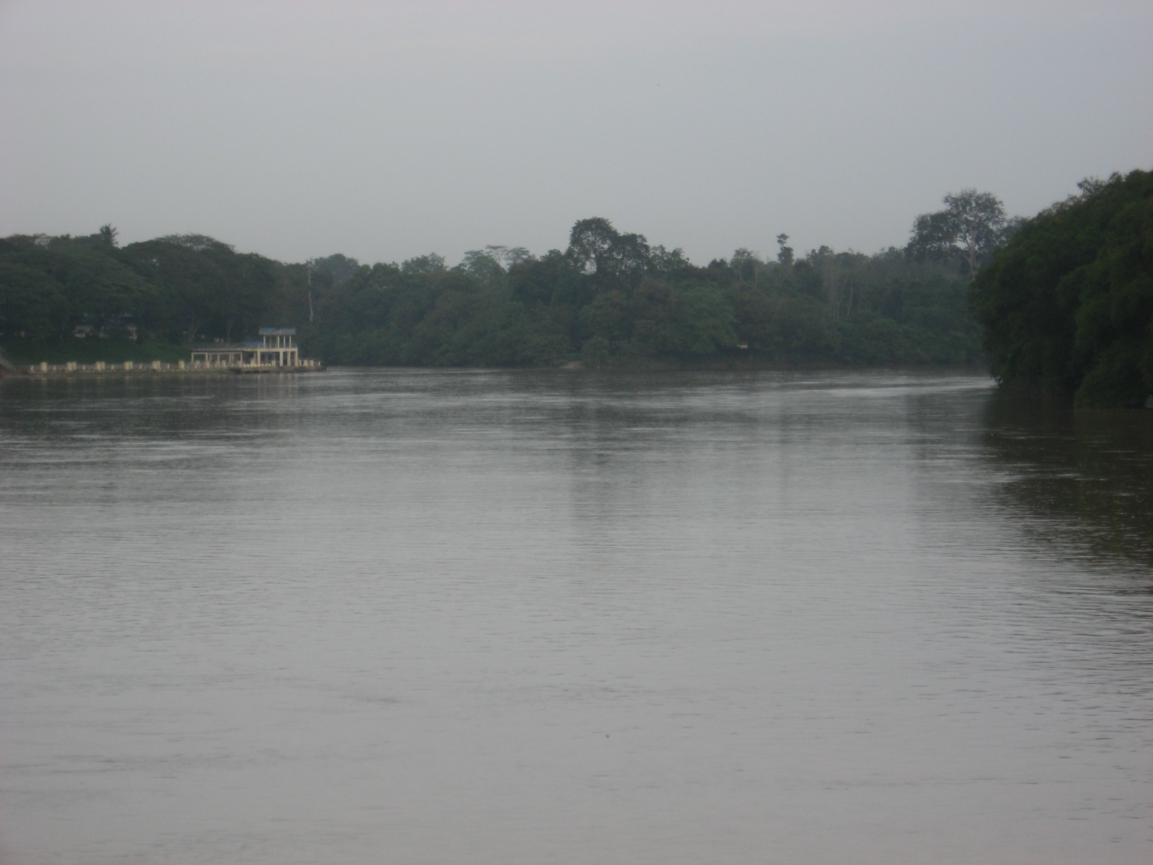 Tabdulla 15:41, 30 January 2007 (UTC)